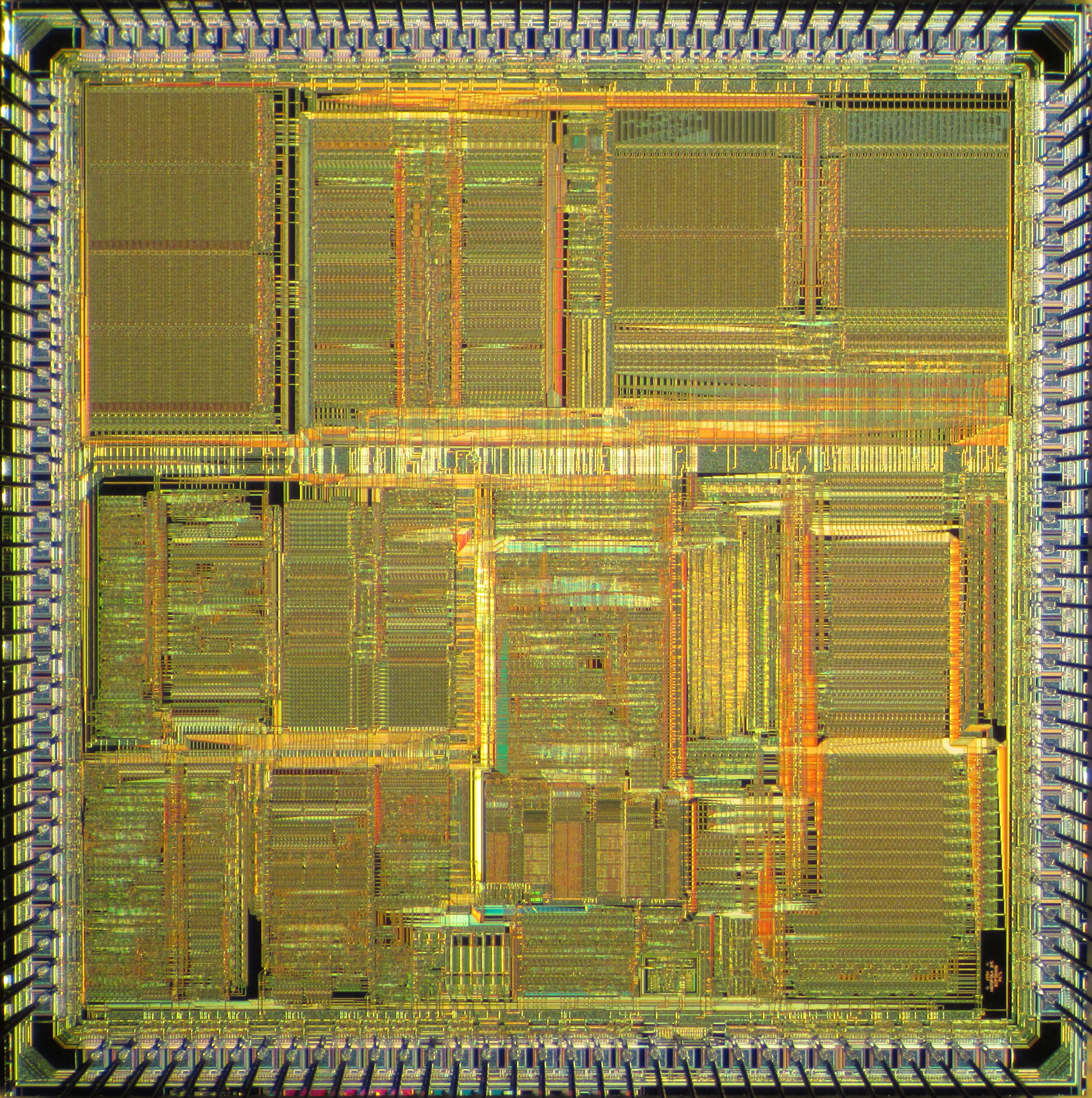 Die shot of Motorola DSP56002 digital signal processor. Two of these dies are in Alcatel 3040 multi-chip module together with six Motorola MCM6726 memory dies.